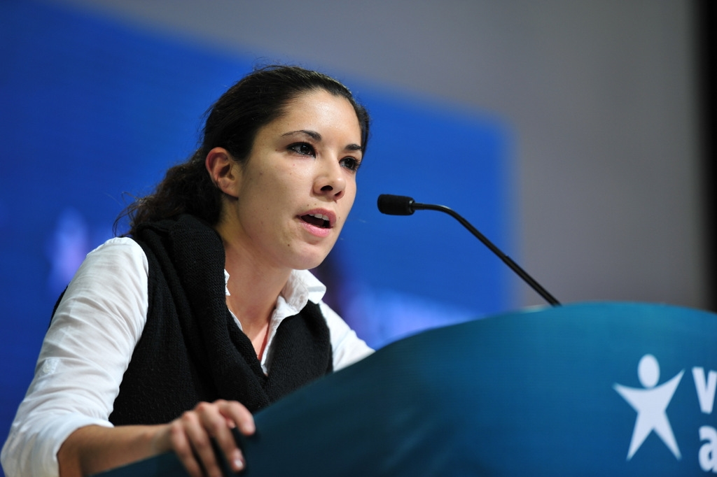 Joana Mortágua, member of the portuguese Parliament.